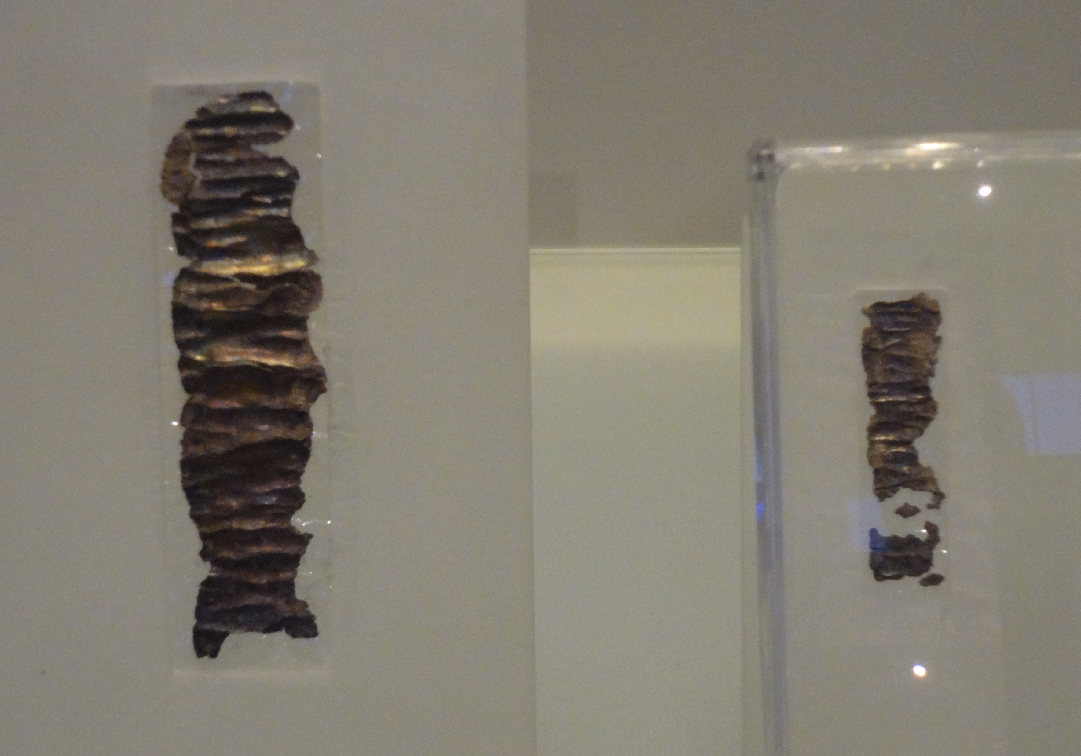 The scrolls found in Ketef Hinom, as displayed in the Israel Museum